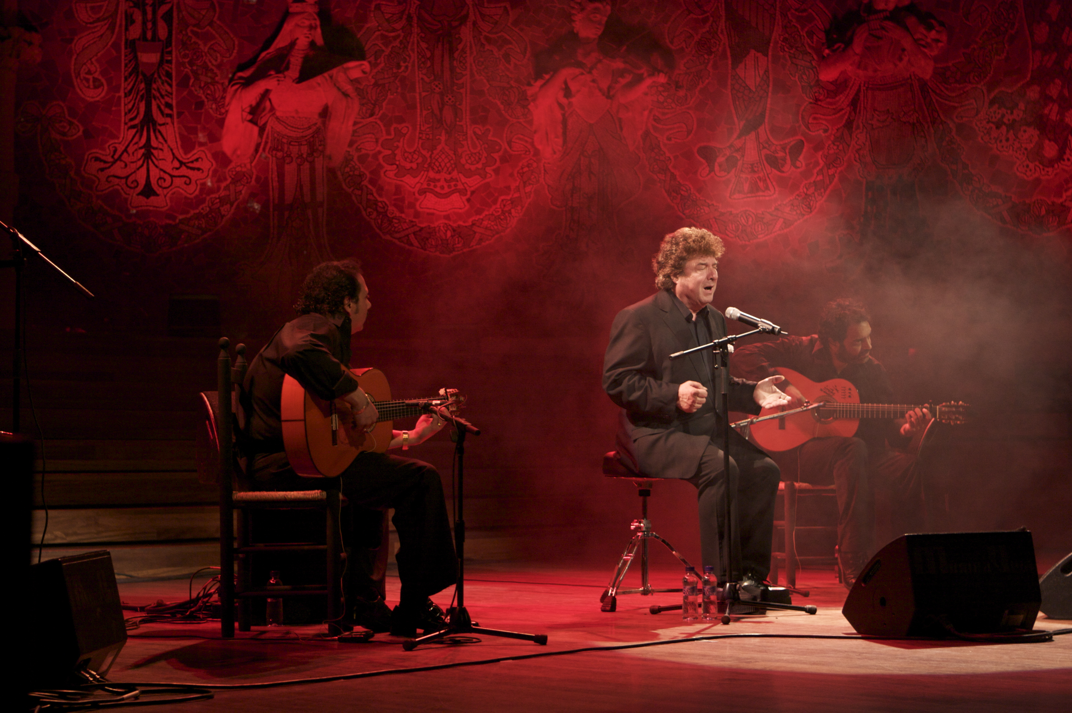 Enrique Morente in the Palau de la Música Catalana, 13th March 2009.